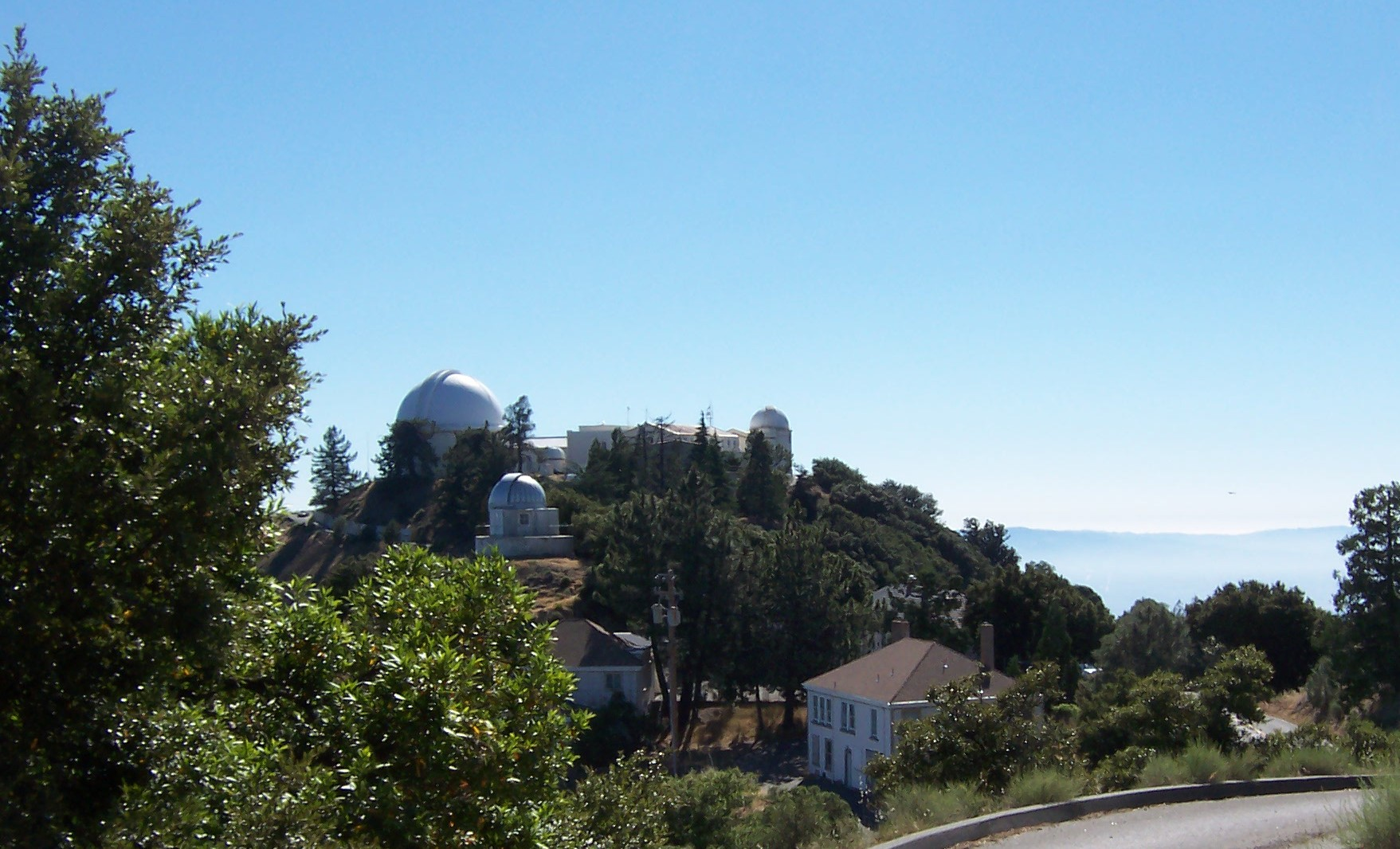 A view at the main building of the Lick Observatory from the site of the 120-inch reflector. In the vicinity of San Jose, California